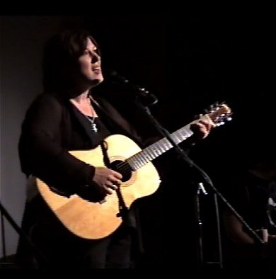 Chris While (musician) on stage in Hobart, Australia, April 1997 (Tony Rees photograph)